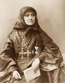 Nino, born Princess Anna Amilakvari (1815-1904), was an abbess (ihumenia) of Samtavro convent from 1865 to 1904